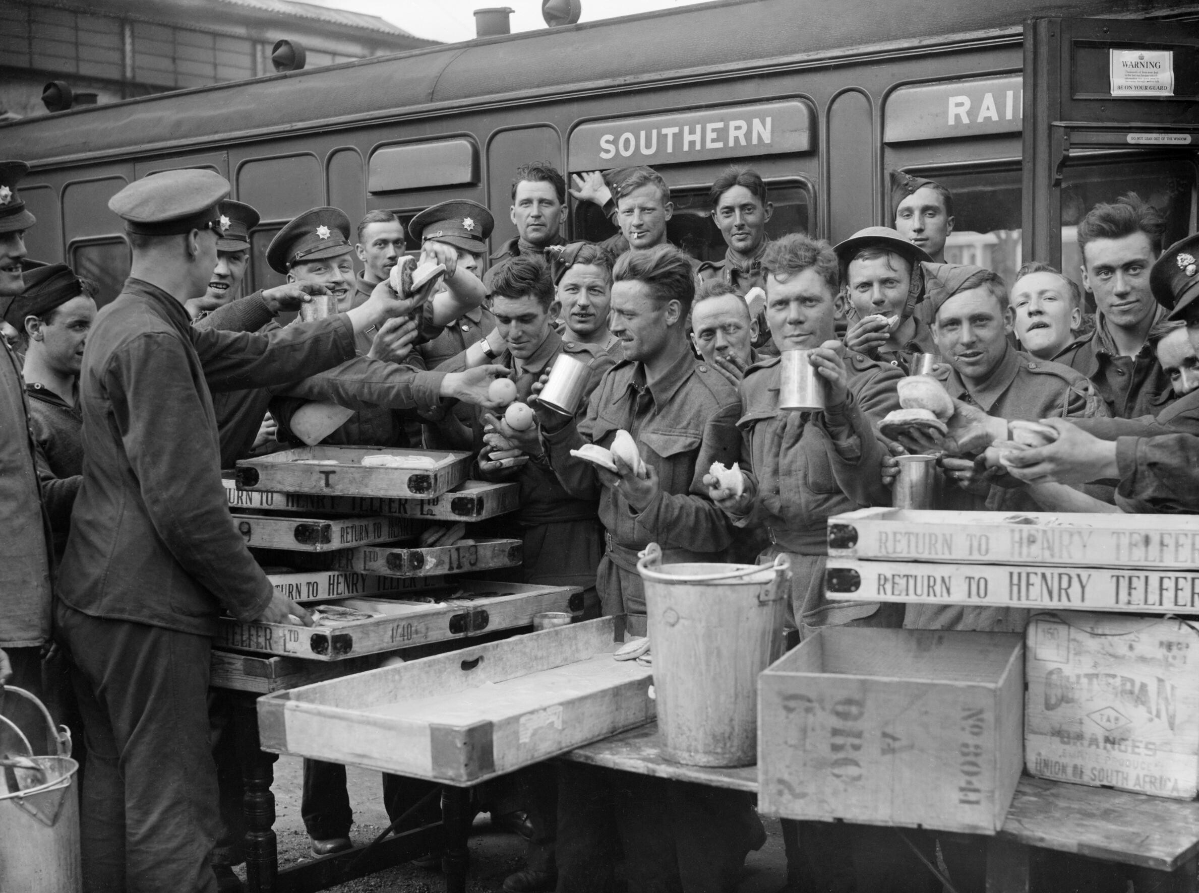 Troops evacuated from Dunkirk enjoying tea and other refreshments at Addison Road station in London, 31 May 1940. Evacuated troops enjoying tea and other refreshments at Addison Road station, London, 31 May 1940.